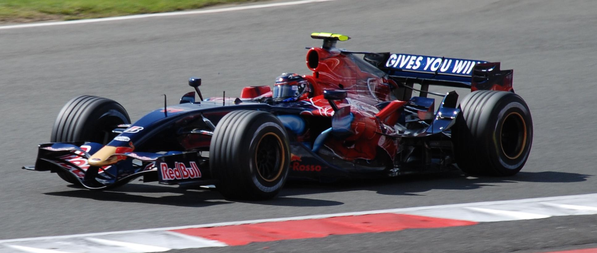 Scott Speed driving for Scuderia Toro Rosso at the 2007 British Grand Prix.